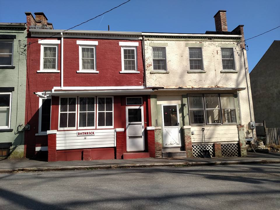 Houses in the Brick Row Historic District in Athens, NY. These rowhouses were built in the late 19th and early 20th centuries to house people who worked in the clay pits and brickyards that lined the nearby Hudson River, and their families.